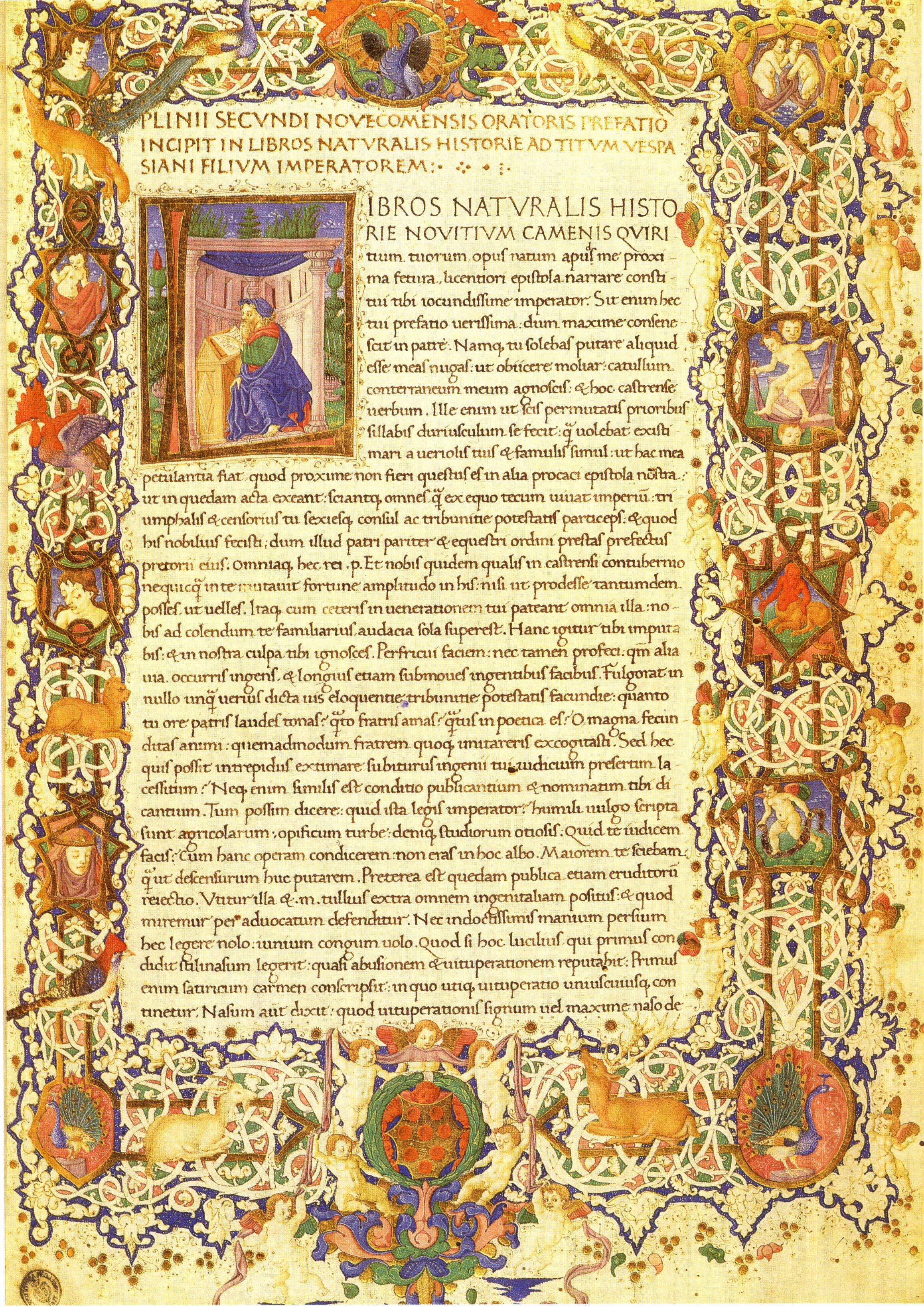 Pliny the Elder, Natural History in ms. Florence, Biblioteca Medicea Laurenziana, Plut. 82.4, fol. 3r.